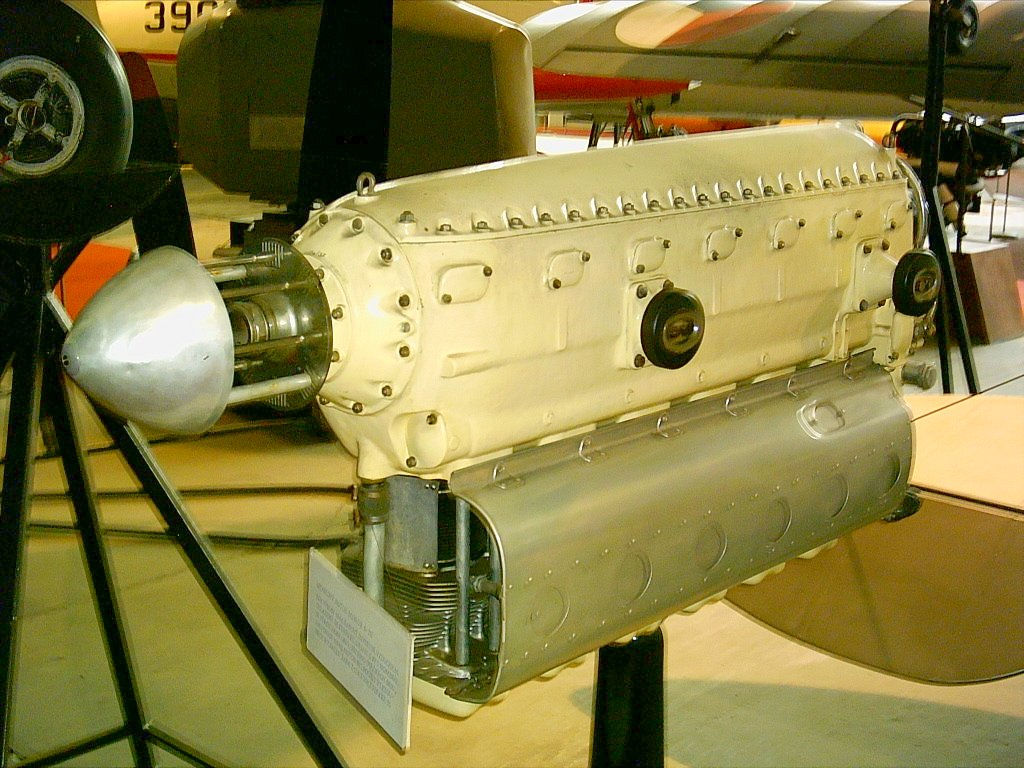 Walter Minor 6-III, Kbely museum, Prague, Czech Republic